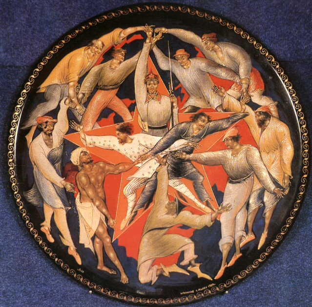 The Third International. Miniature on a round lacquered plate.